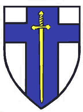 Emblem of the 2nd British Army.